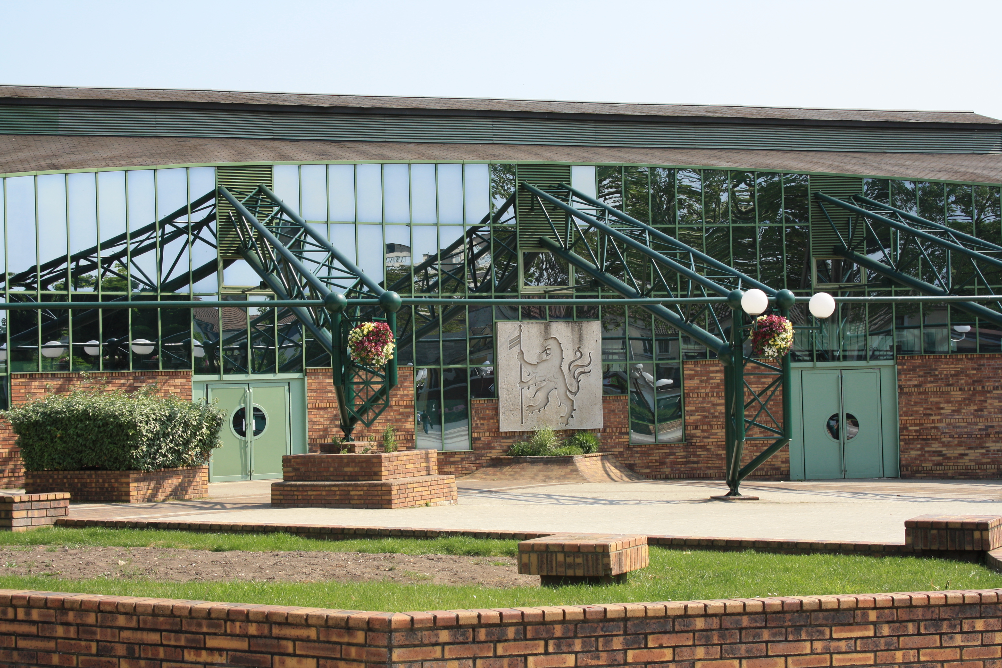 Savigny-sur-Orge in France